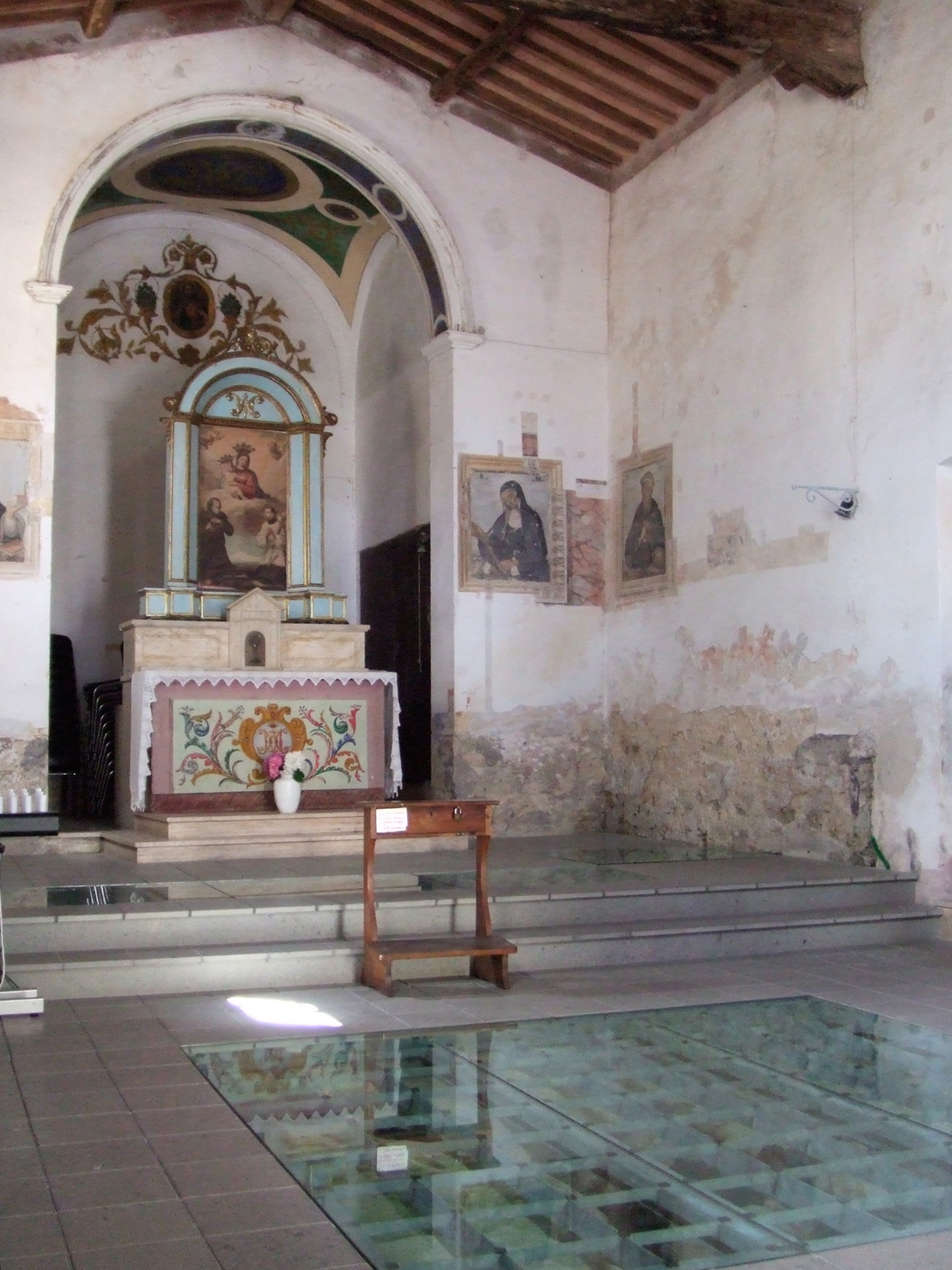 Altar of the church Della Madonna della Neve (Santa Fiora).